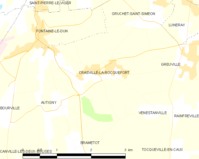 Map of French municipality Crasville-la-Rocquefort